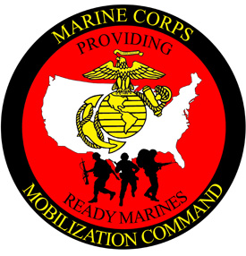 This is MOBCOM's logo.